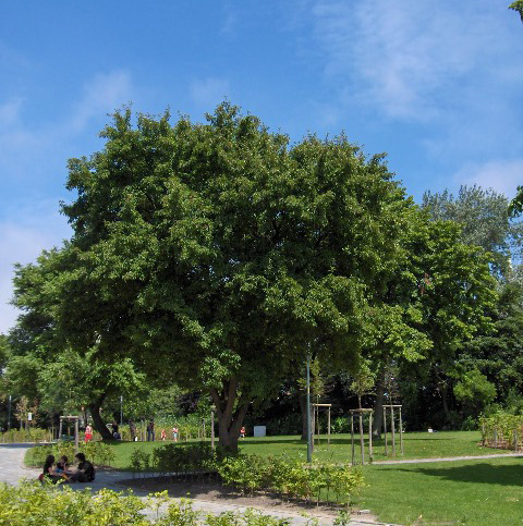 Species Malus hupehensis Family Rosaceae